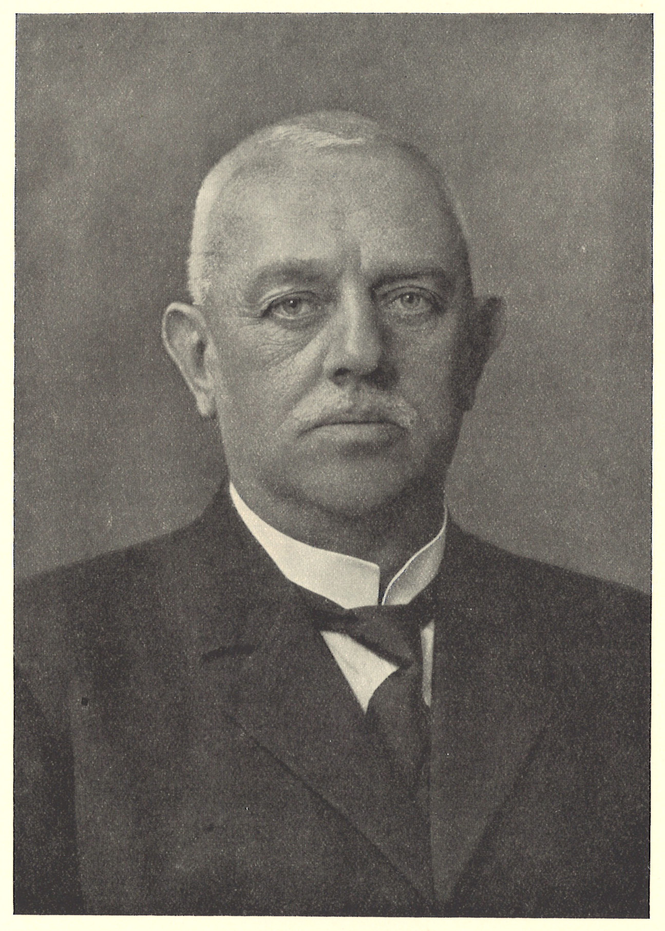 Fredrik Montelin (1871-1941), Swedish pharmacist, local politician etc.